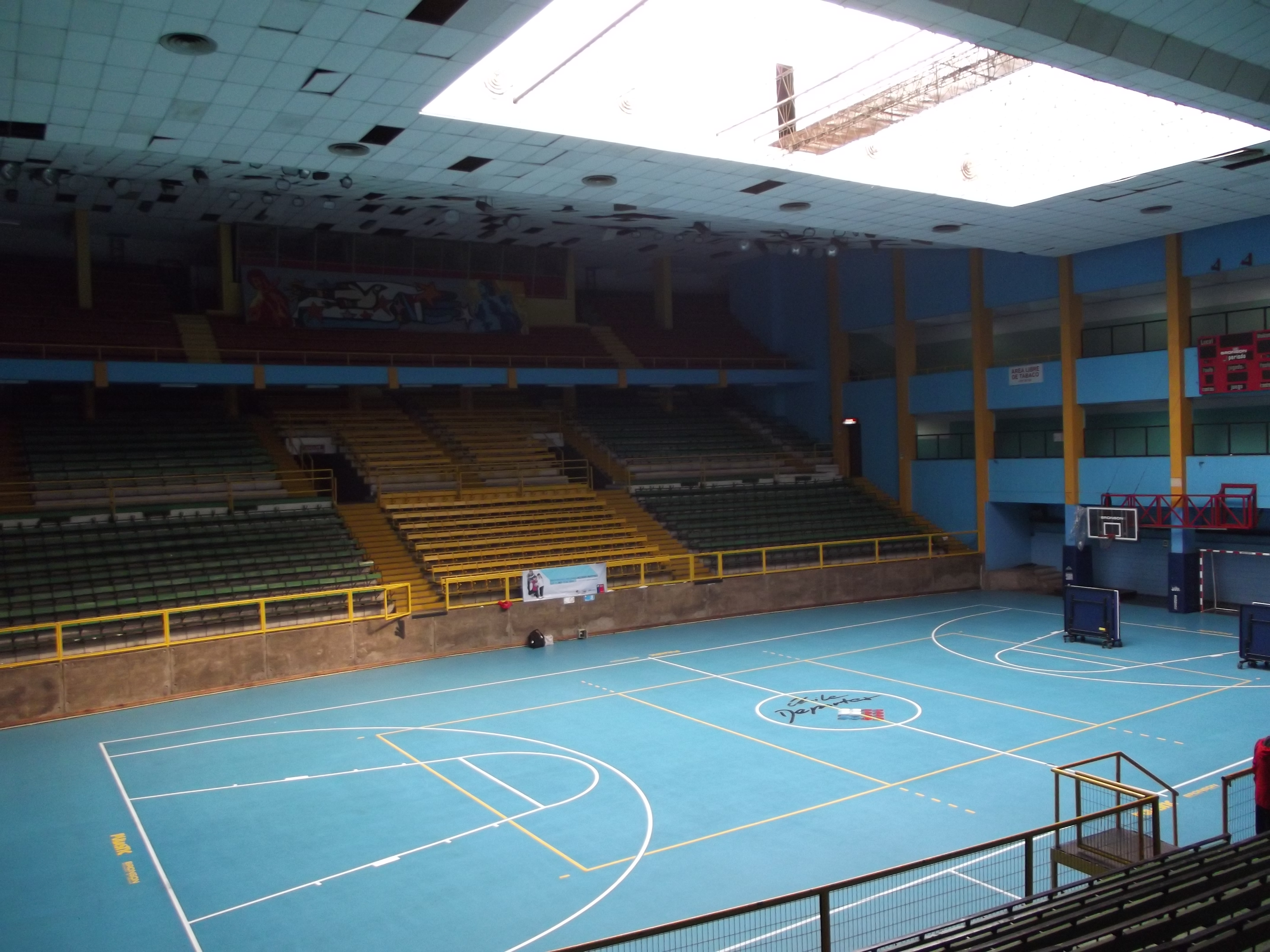 This is a photo of a national monument in Chile: 2141